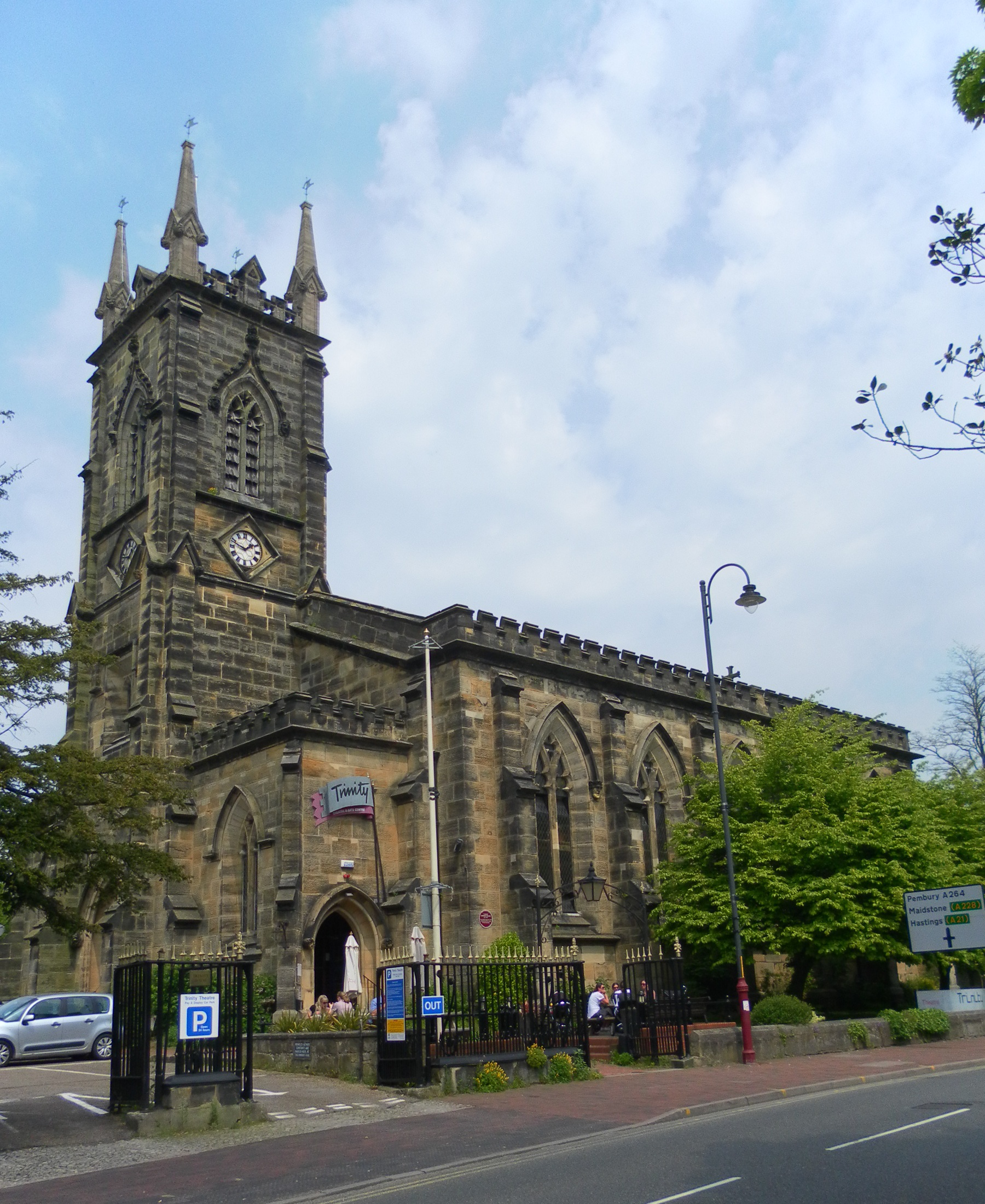 Former Holy Trinity Church, Church Road, Royal Tunbridge Wells, Borough of Tunbridge Wells, Kent, England. Saved from demolition in 1980 and converted into the Trinity Arts Centre. Listed at Grade II* by English Heritage (NHLE Code 1223642)